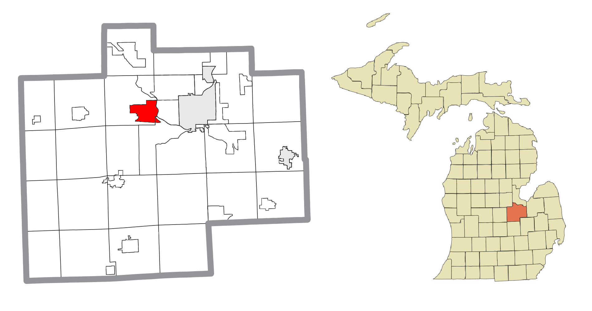 Shields, MI